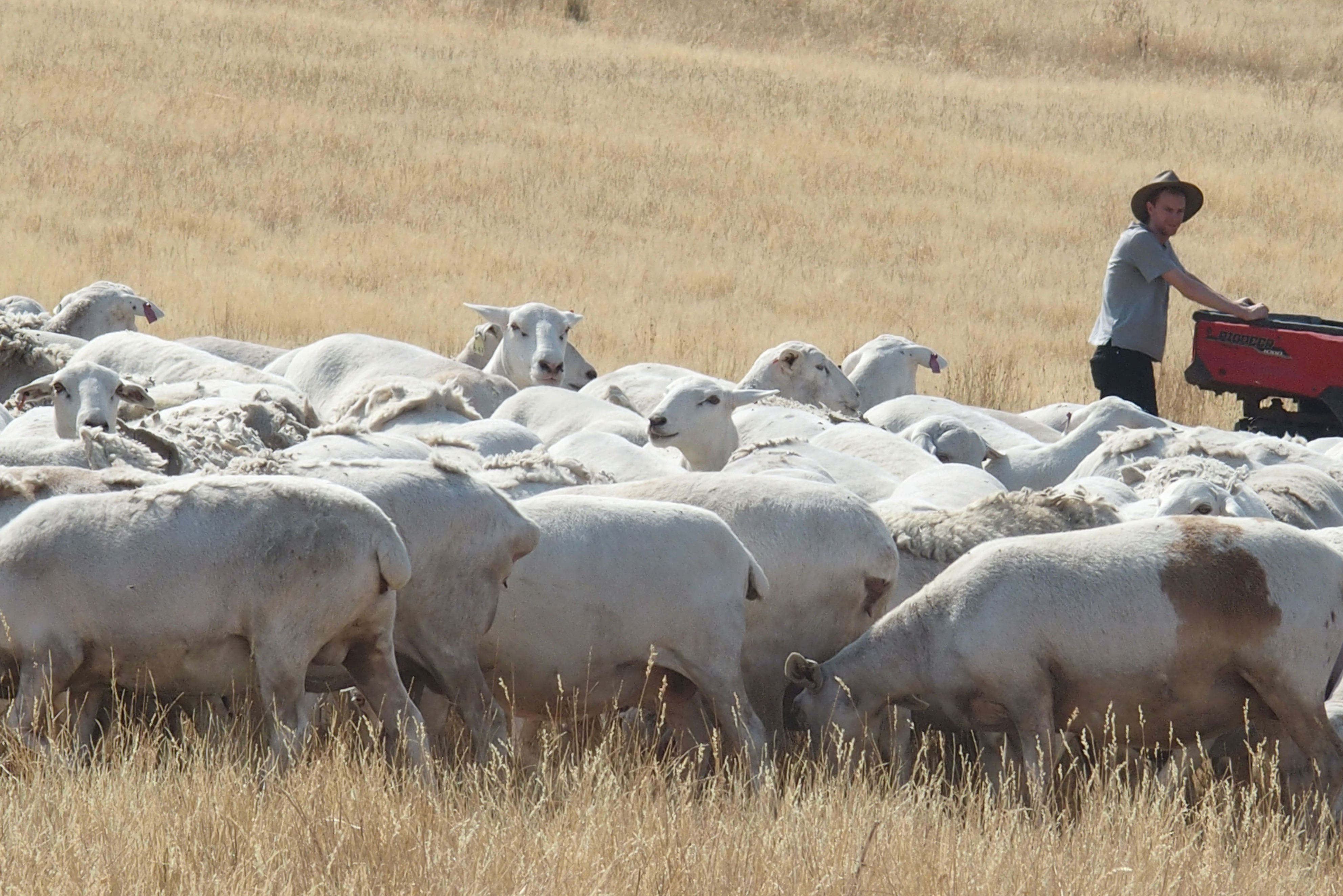 Australian Whites are a relatively new breed with genetic origins in the White Dorper, Van Rooy, Poll Dorset and Texel breeds. They are well suited to heat and resistant to disease.